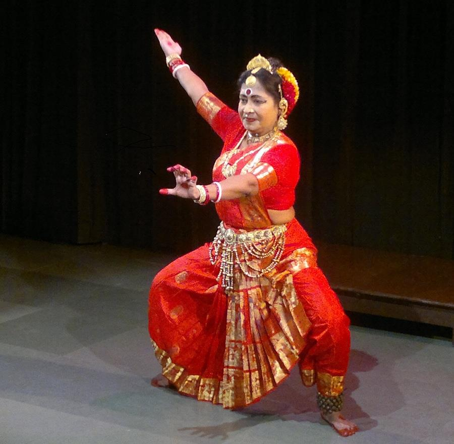 Guru Sreemati Dr. Mahua Mukherjee performing Gaudiya Nritya, a classical dance of Bengal.